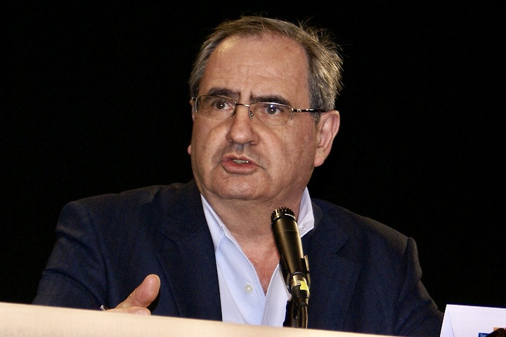 Pierre Rosanvallon, French intellectual and historian, professor at the Collège de France, speaking at the Semaines sociales de France at Villepinte, on the 20th of November, 2009.